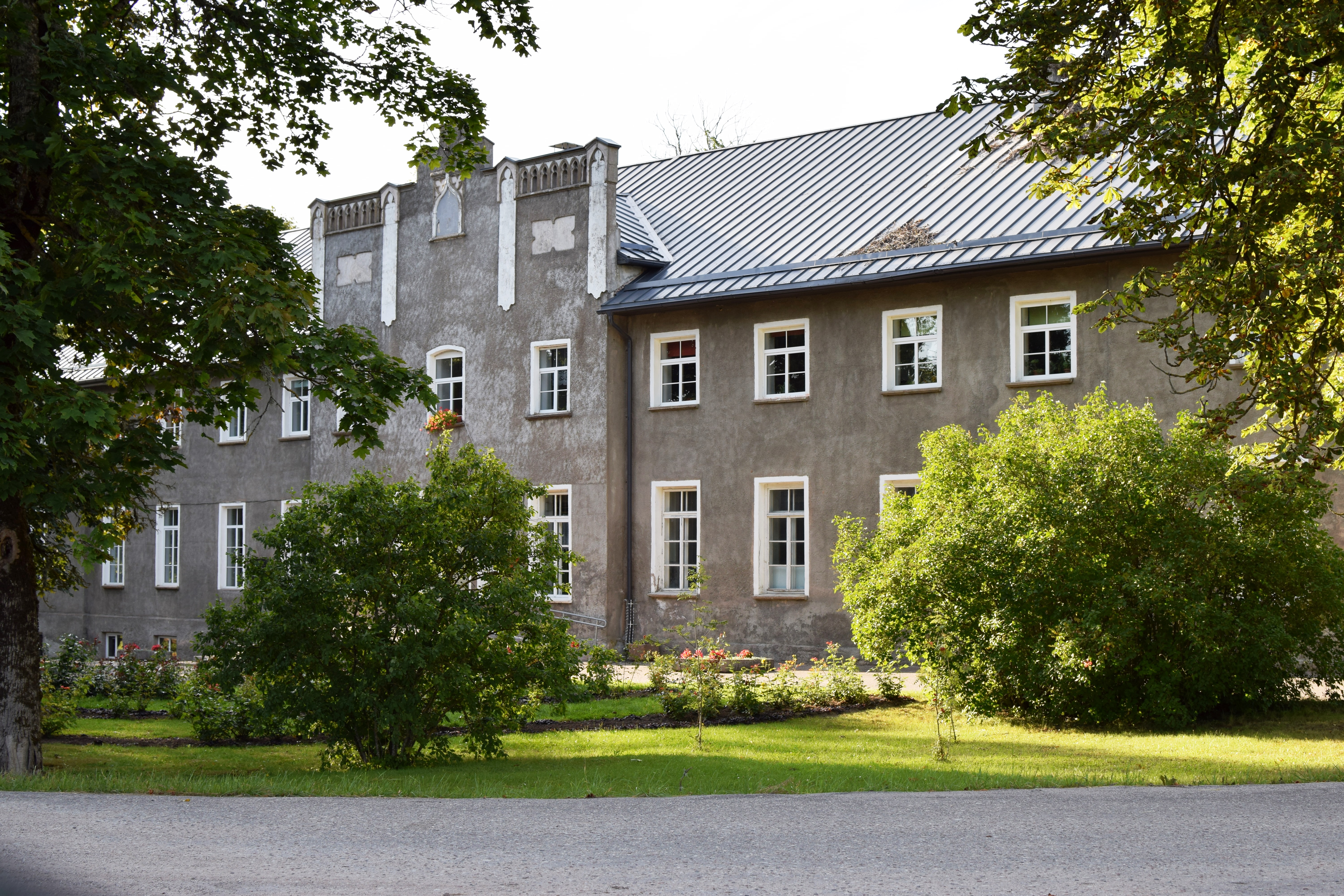 Priekule Municipality